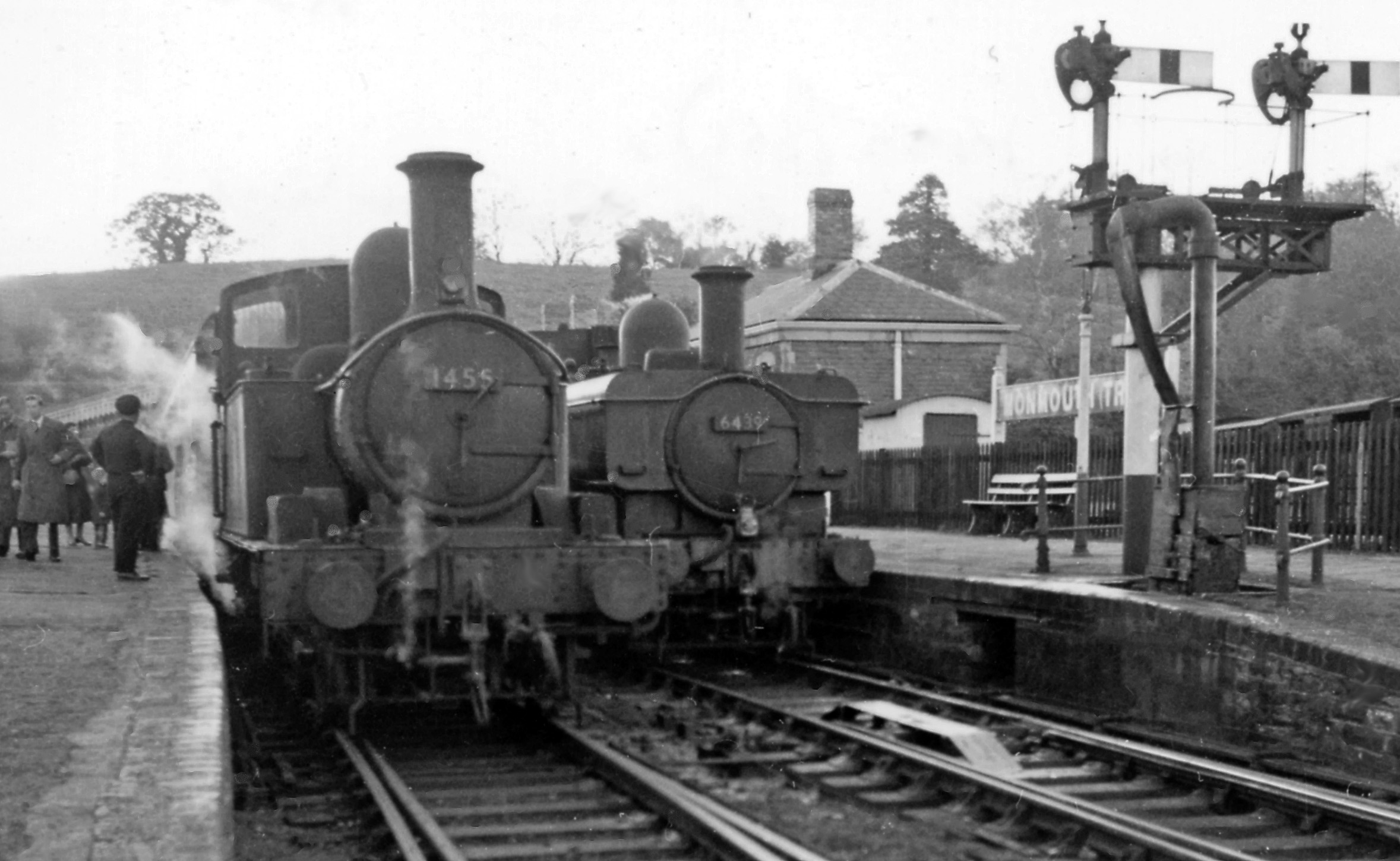 Monmouth (Troy) Station, with local trains. View westward, towards Pontypool Road: ex-GW Pontypool Road - Ross-on-Wye/Chepstow lines. On the left is Collett 0-4-2T No. 1455 (built 7/35 as No. 4855, renumbered 11/46, withdrawn 5/64) - pushing - on an auto-train from Ross-on-Wye. On the right is auto-fitted '6400' class 0-6-0PT No. 6439 (built 4/37, withdrawn 5/60) on a train to Severn Tunnel Junction via Chepstow. (See also SO5011 : Monmouth Troy Station).